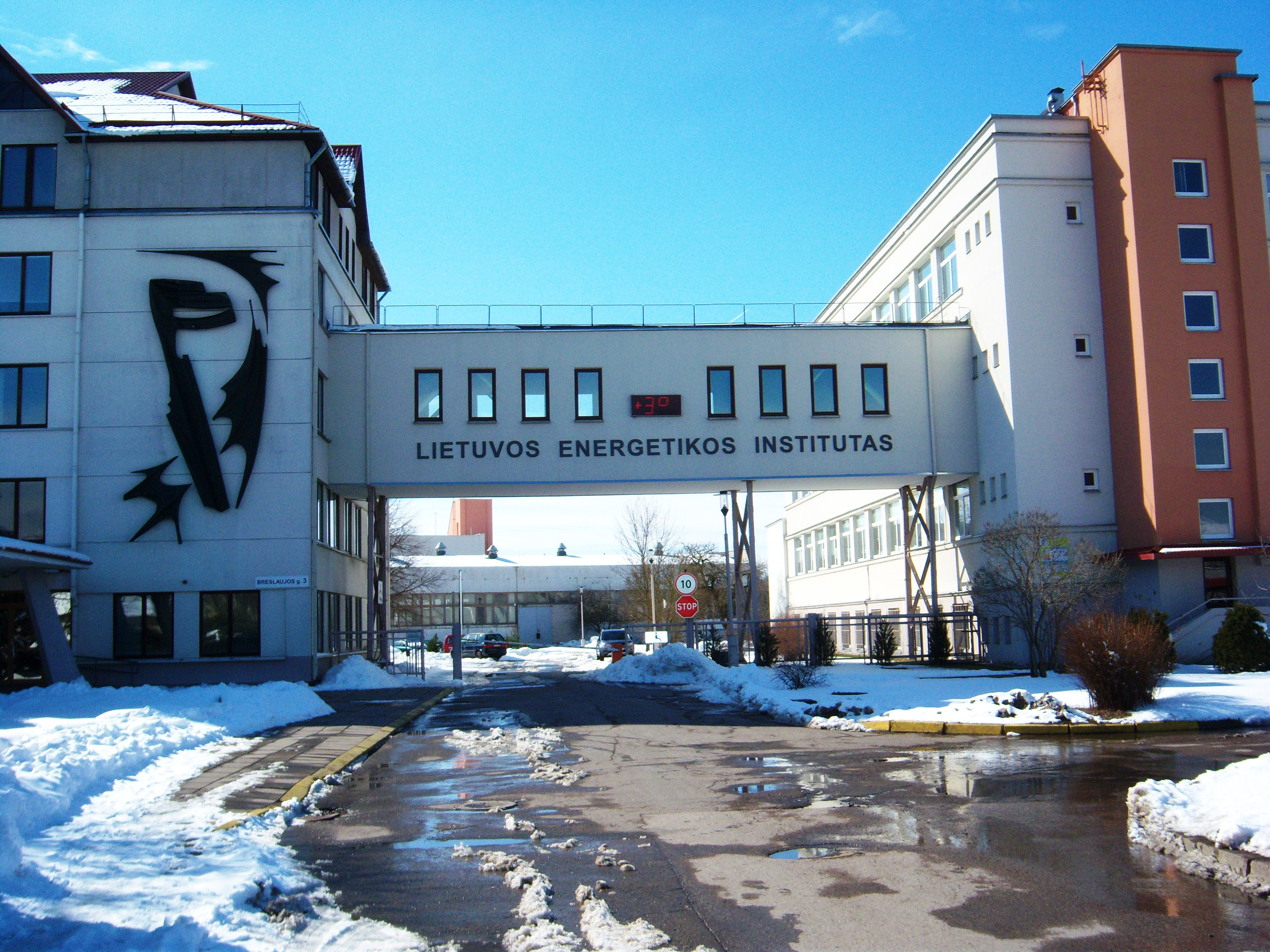 Lithuanian Energy Institute, Kaunas